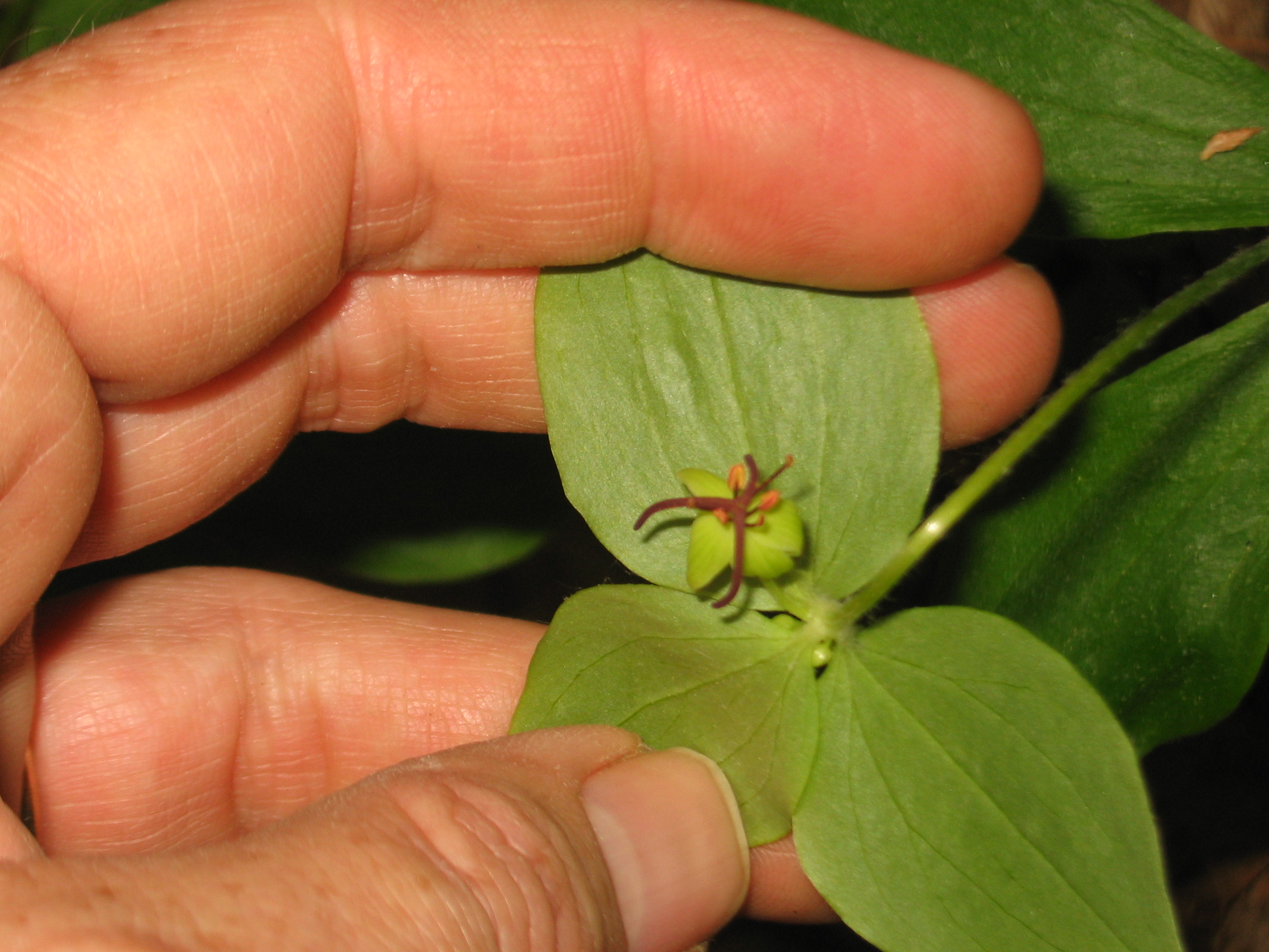 Photo of Medeola virginiana showing blossom.